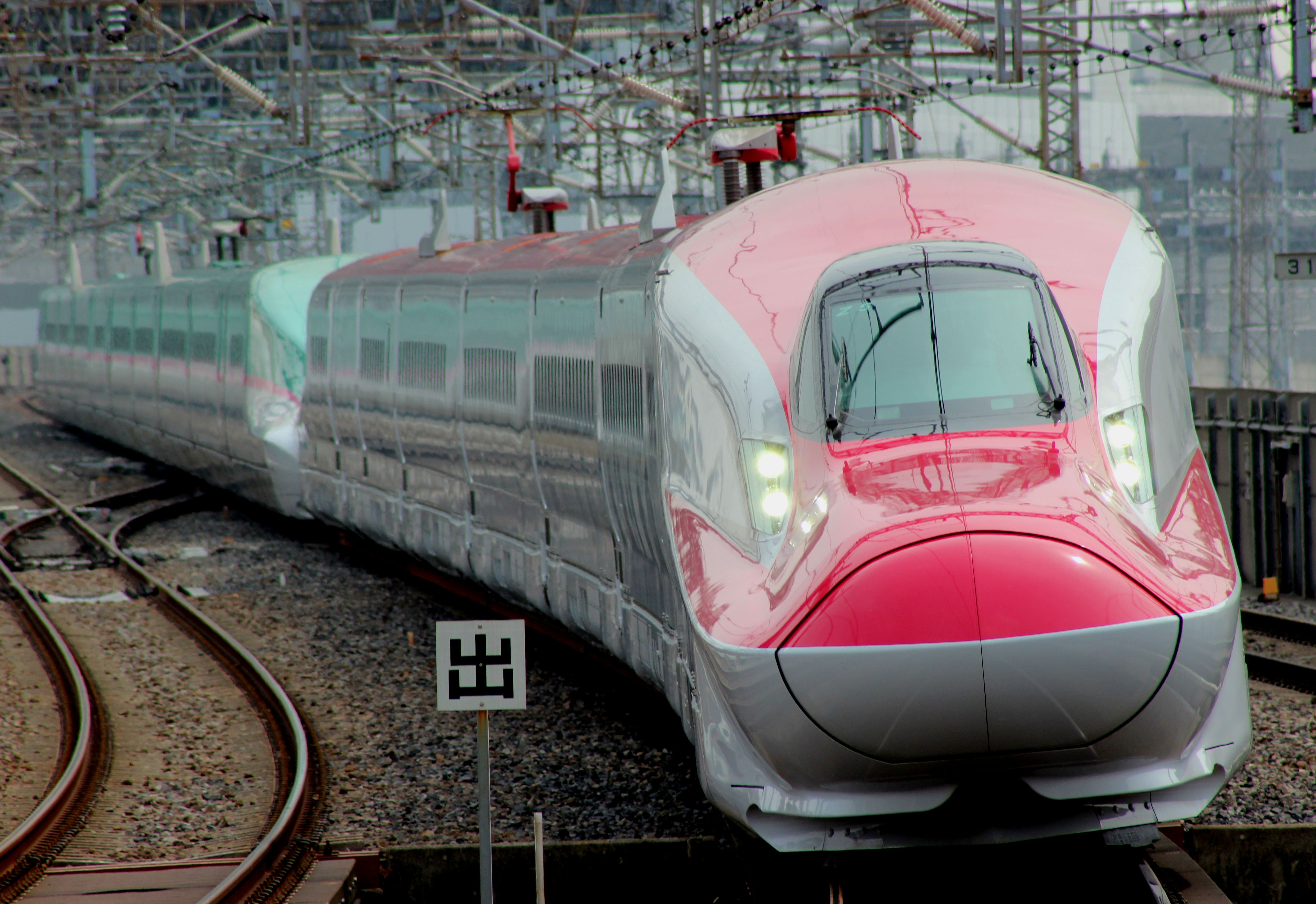 JR East E6 series shinkansen set Z5 approaching Omiya Station on a down Tohoku Shinkansen service coupled to an E5 series set